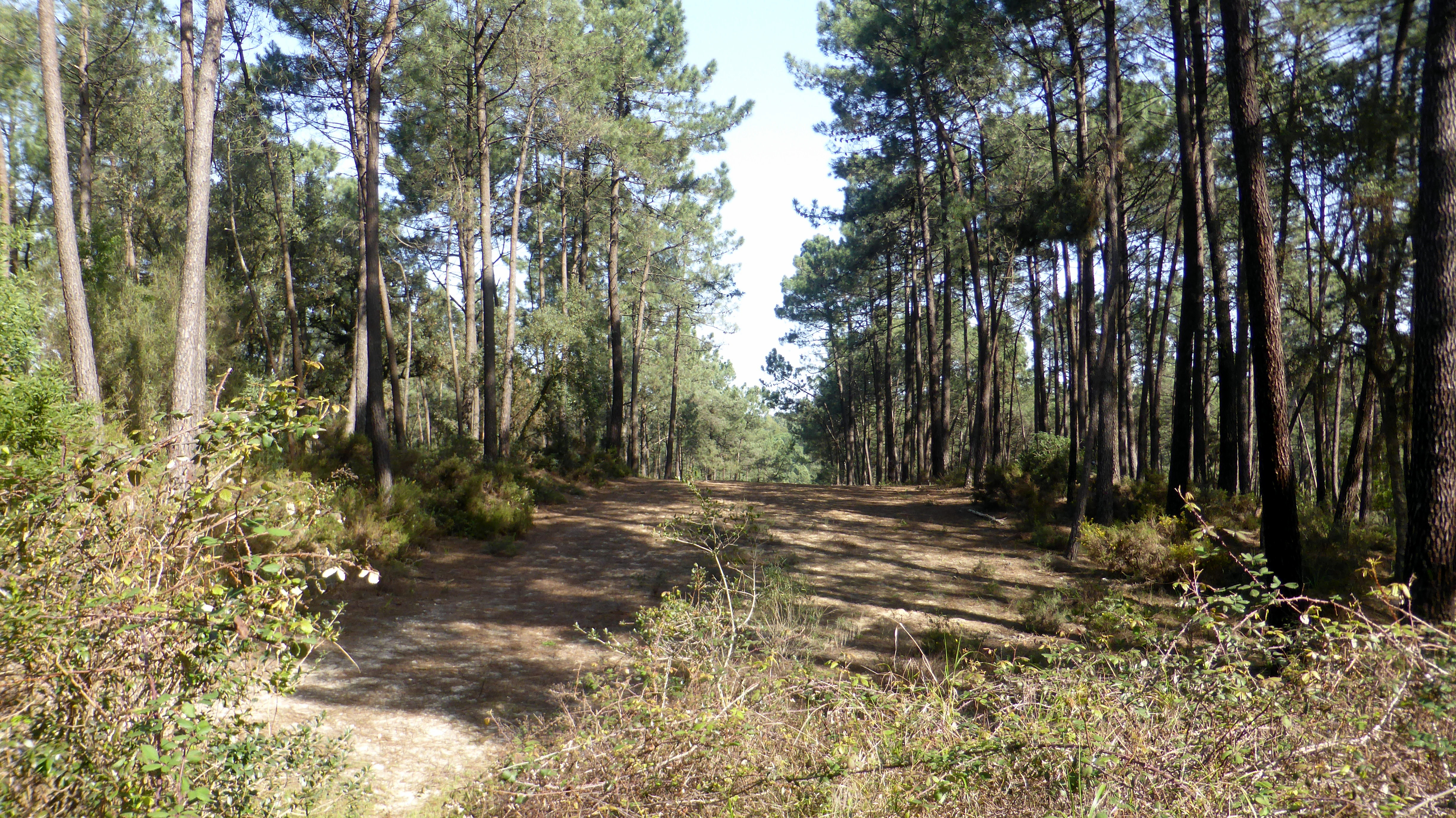 Firebreak also called "fireroad", "fire line" or "fuel break"